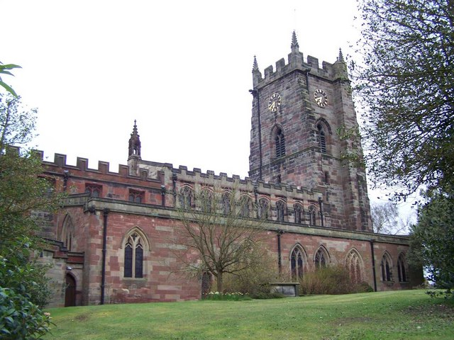 St. Mary's Church, Market Drayton